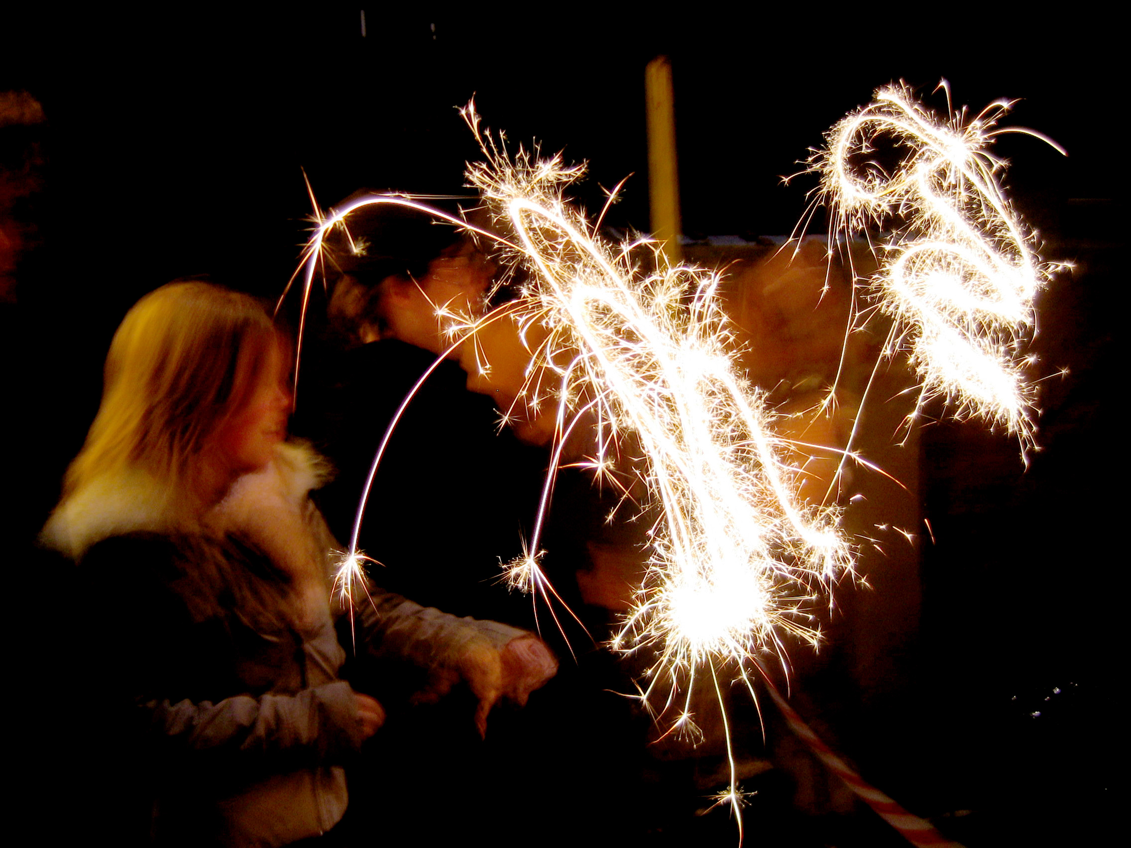 This photograph shows several people moving sparklers around in patterns. It was taken with a low camera shutter speed, creating the visual perseverance seen.